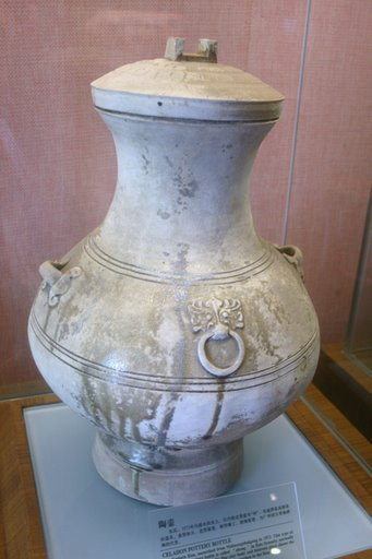 A Chinese celadon pottery bottle, dated to the Eastern Han Dynasty (25–220 CE)